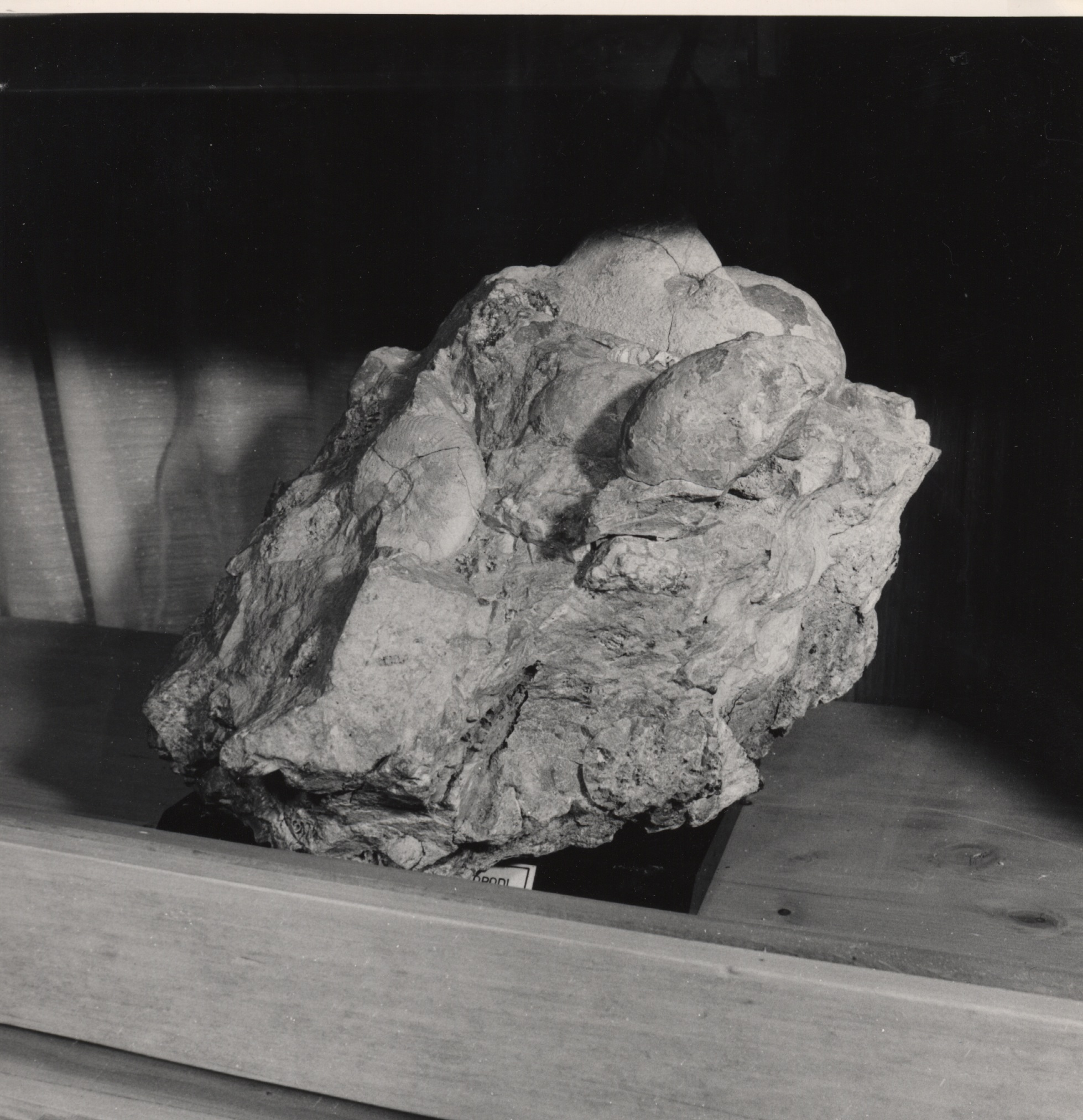 Museo delle Grigne design 1959. Archivio Pietro Pensa, Esino Lario.